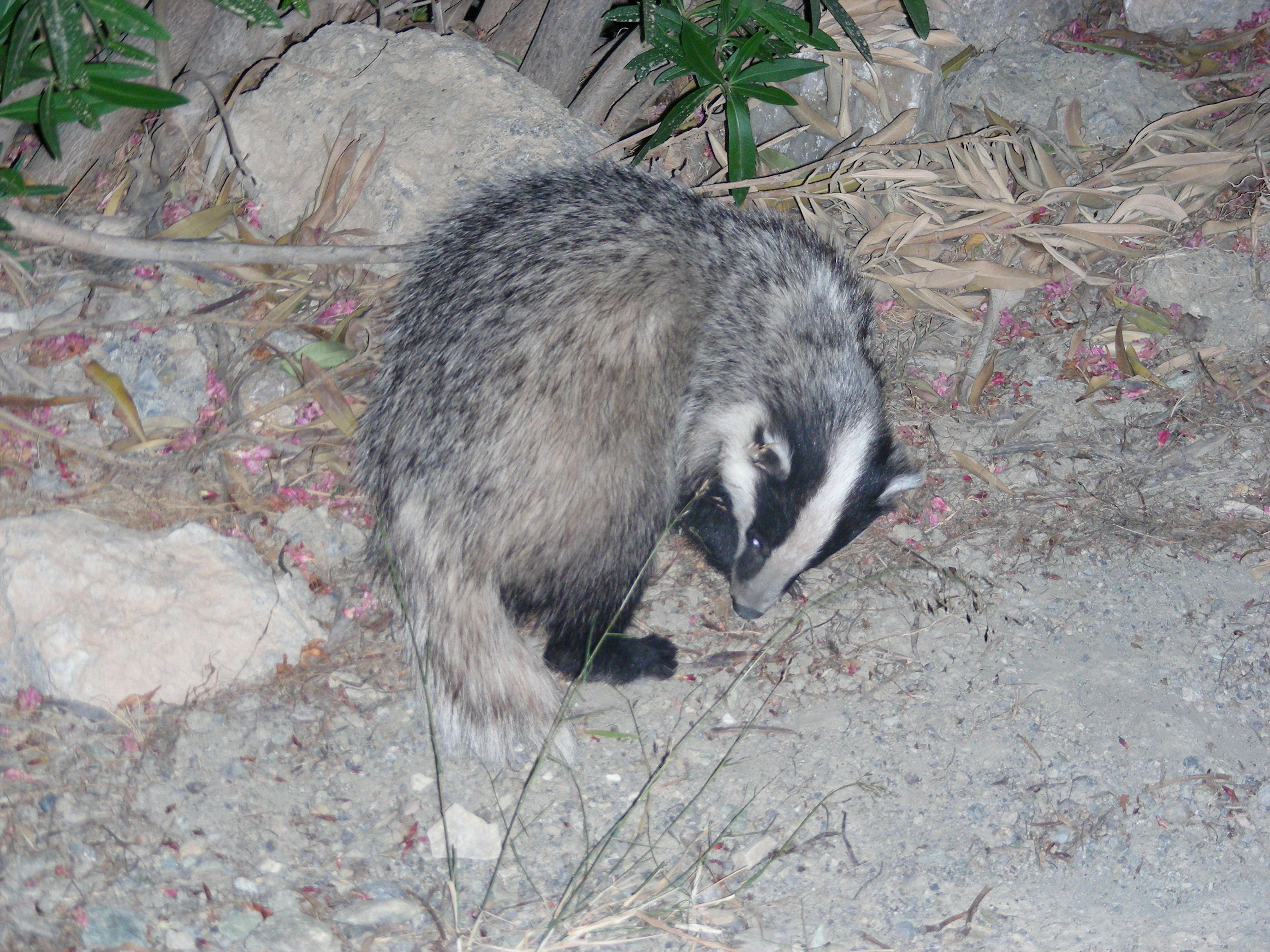 A small badger, called locally "arcalos", from Crete.